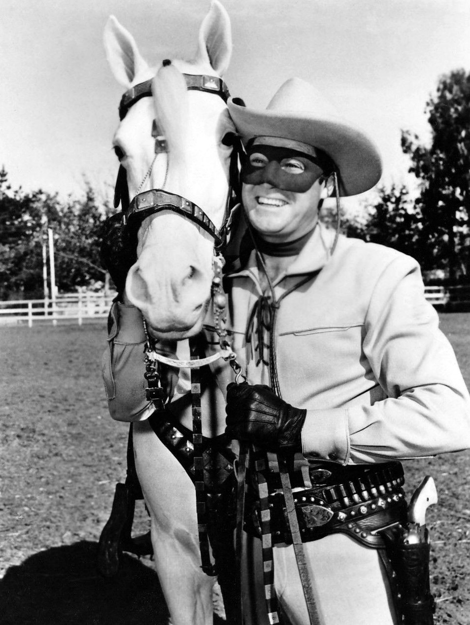 Photo of Clayton Moore as the Lone Ranger and Silver.